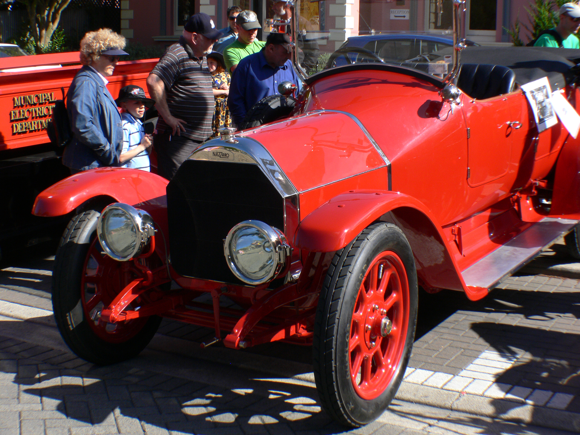 1913 Nazzaro Tipo 3 raced by Felice Nazzaro